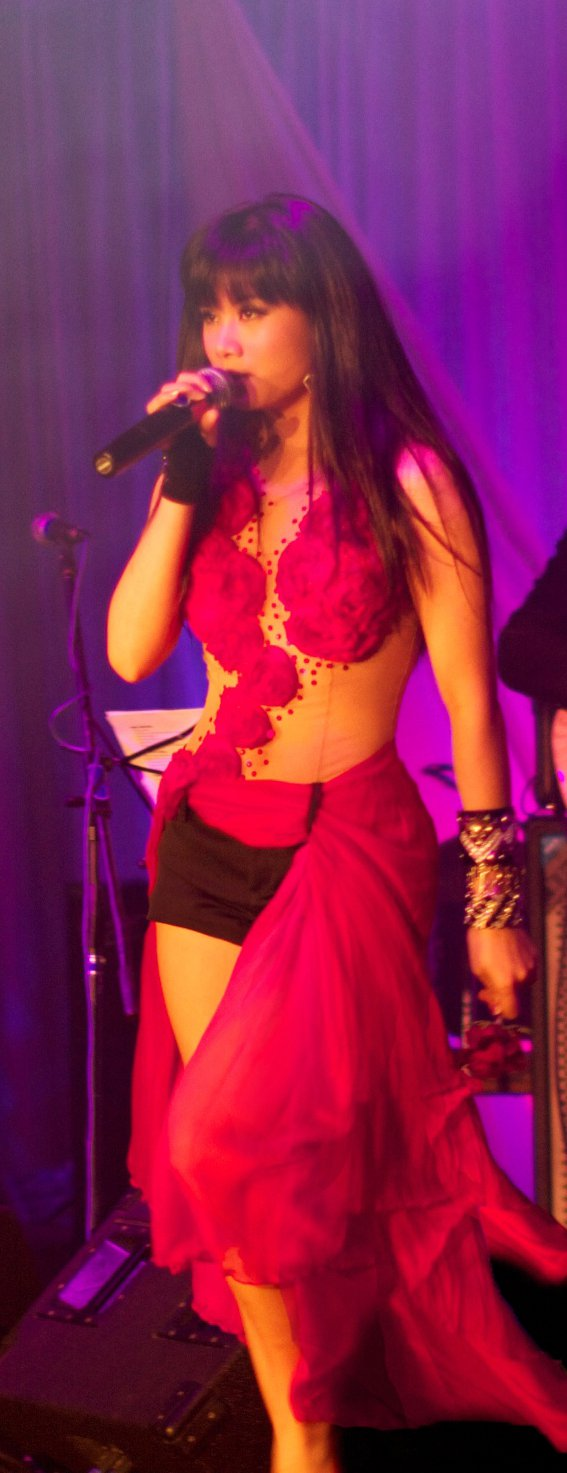 Linda Chou performing live in Houston, TX.